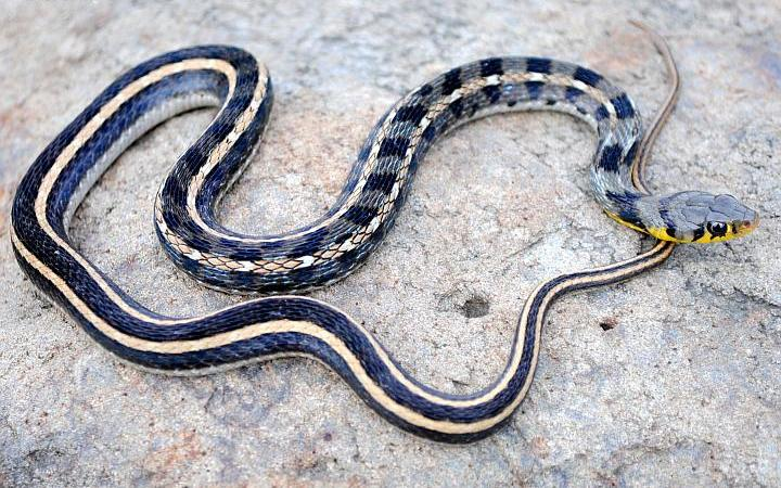 Buff striped keelback Amphiesma stolatum by Krishna Khan Amravati